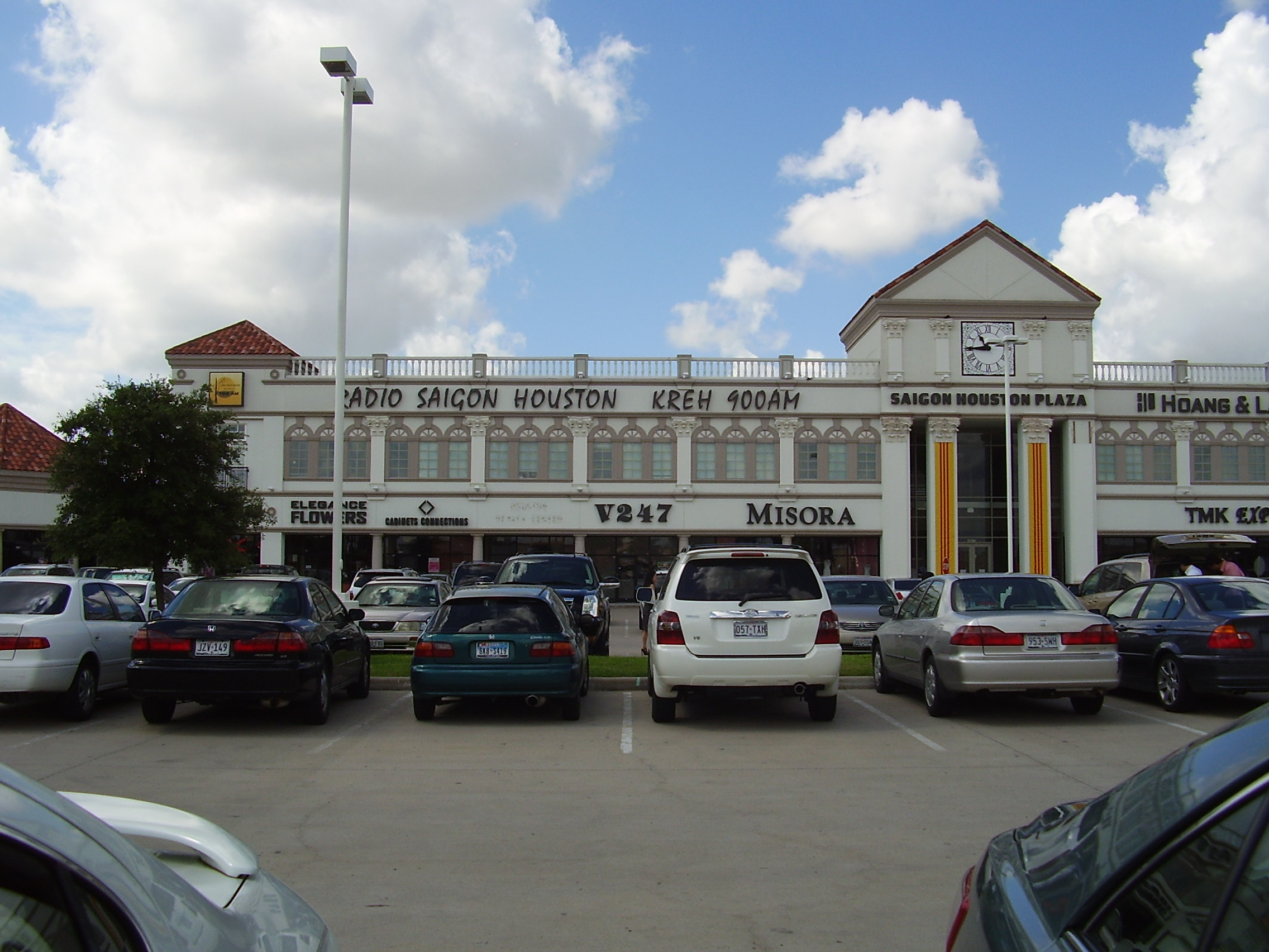 Radio Saigon Houston/KREH Studio in Saigon Houston Plaza - Houston Chinatown